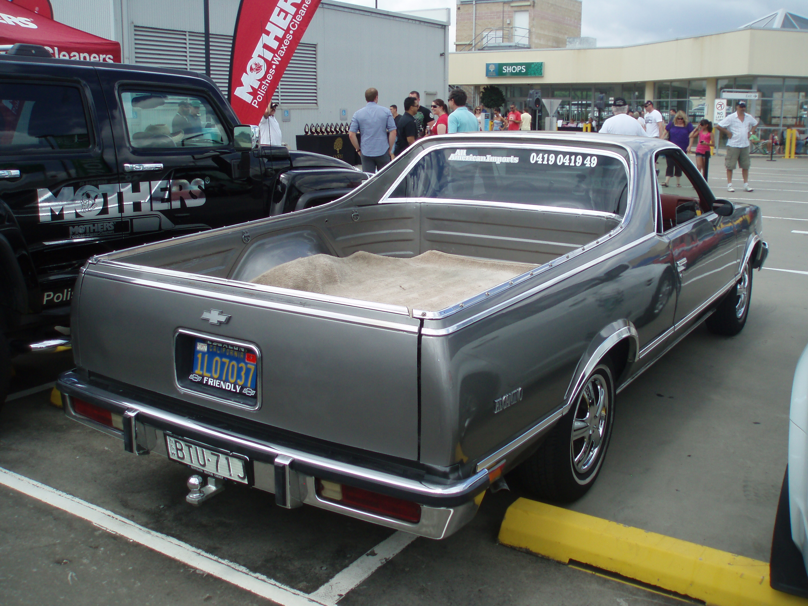 1978 Chevrolet El Camino pick up. Taken at the 2011 New South Wales All American Day, held at Castle Towers Shopping Centre, Castle Hill, Sydney.